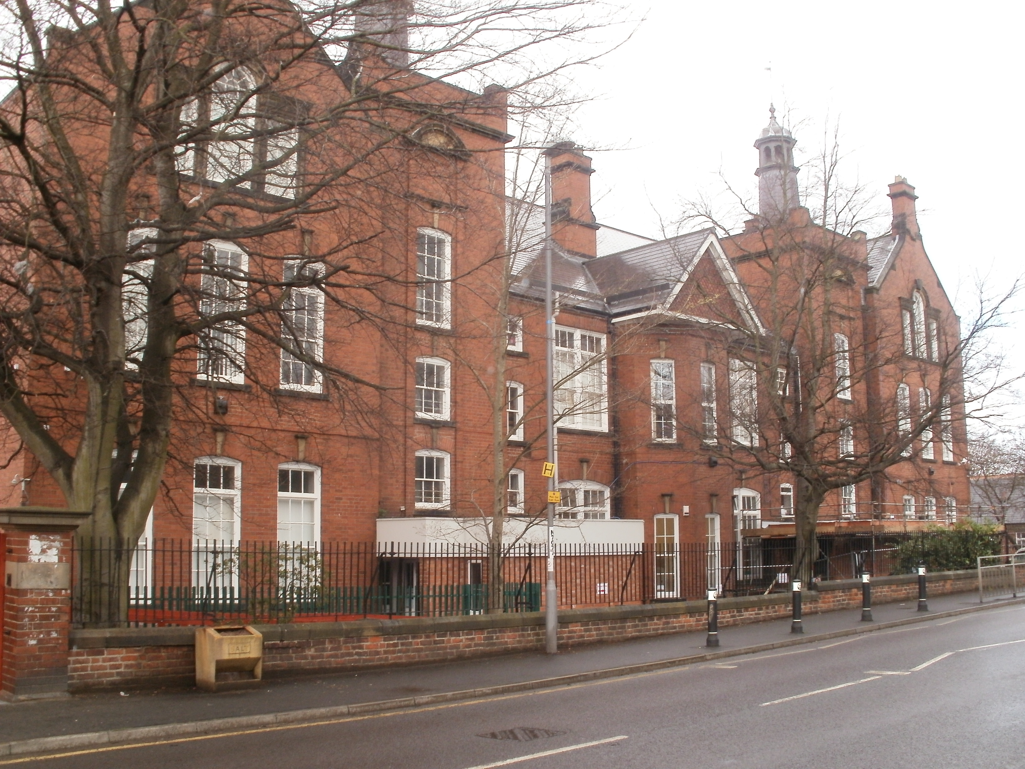 Kells Lane Primary School, Low Fell, circa April 2012